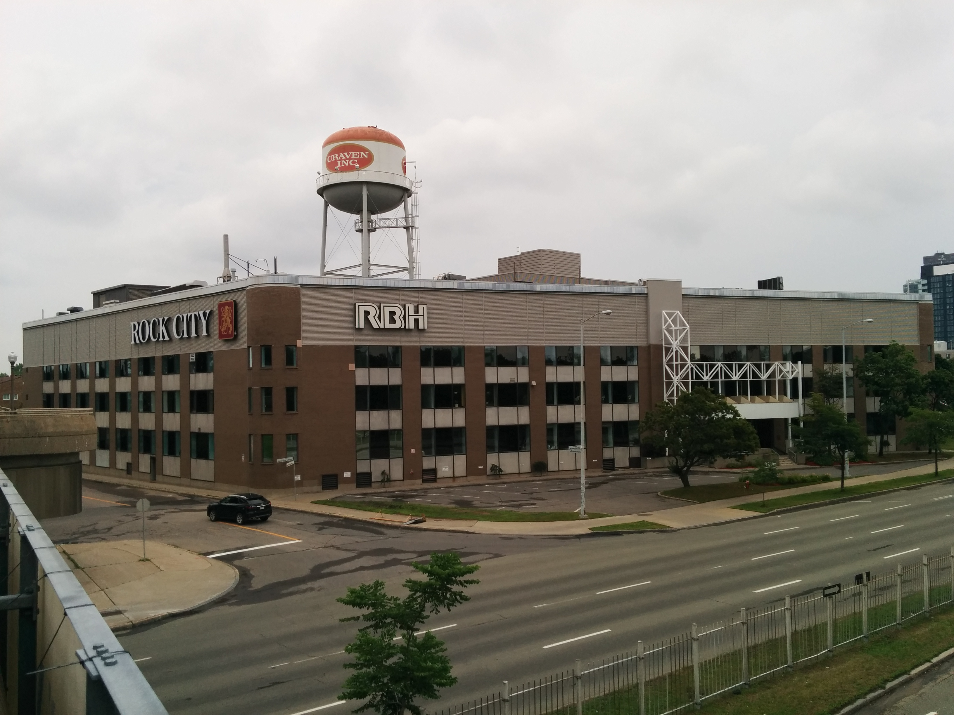 The Rock city tobacco factory (owned by Rothmans benson & Hedge), in Quebec city's Saint-Roch.